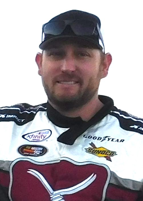 Johnny Borneman III at Kern County Raceway Park in 2017